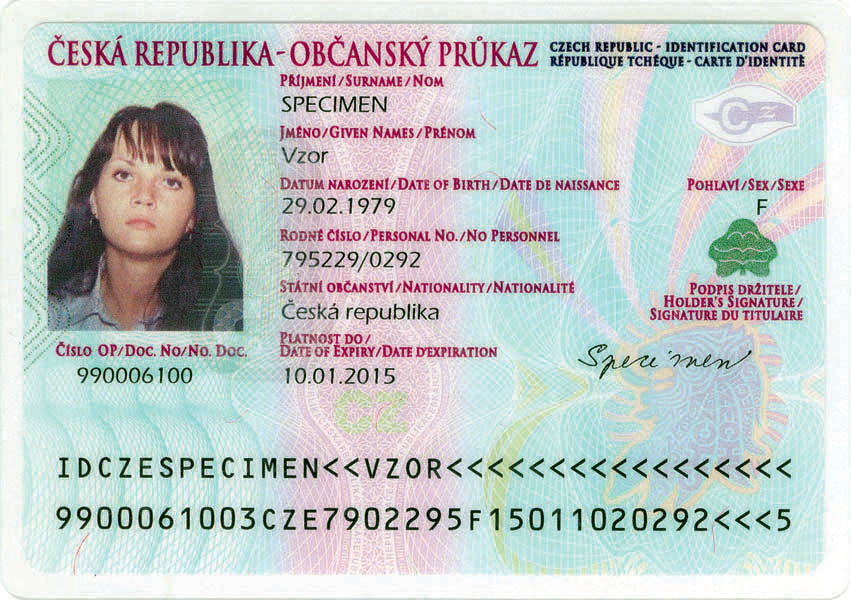 The national ID of the Czech Republic (Občanský průkaz.) in 2005.